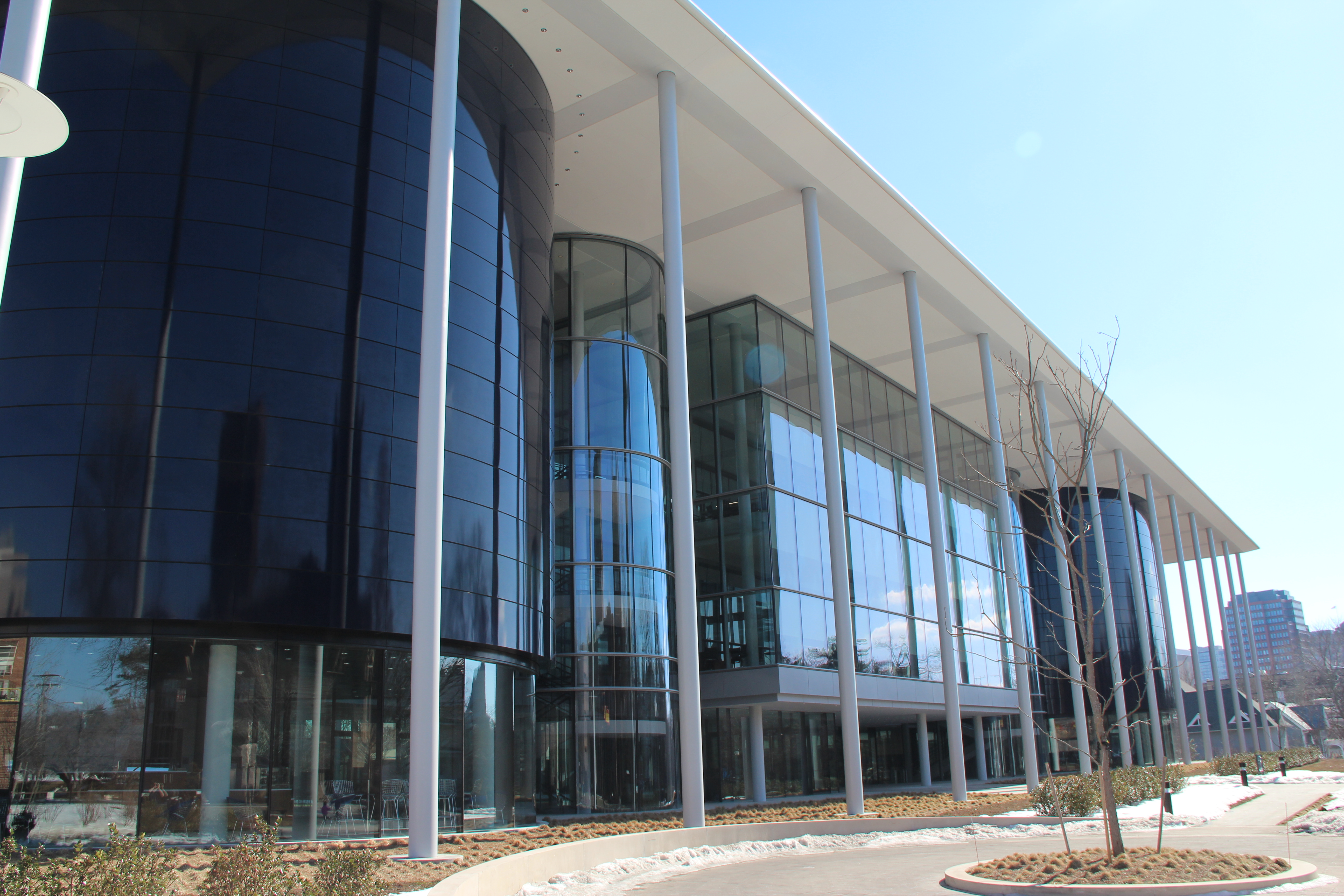 Front facade of Edward P. Evans Hall shortly after completion, Yale School of Management, New Haven, CT